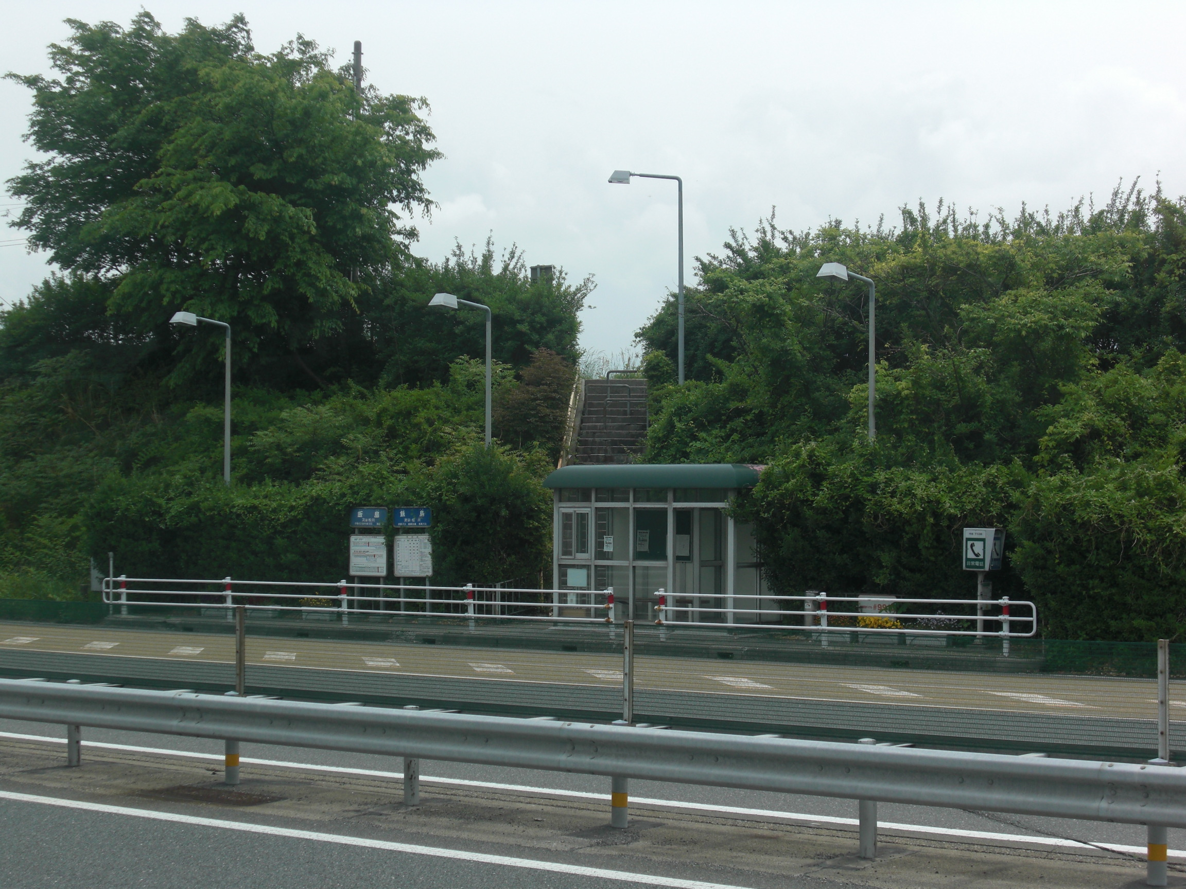 This is a bus stop on Chuo Expressway.